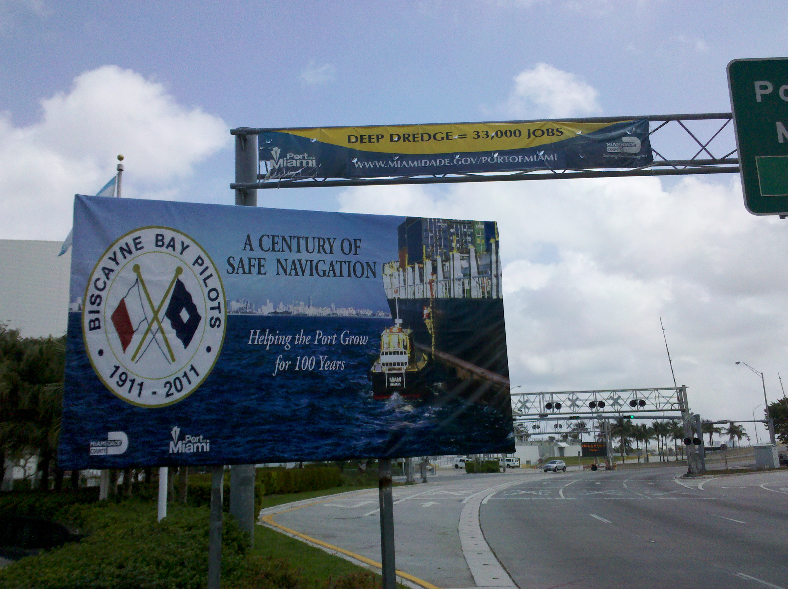 Entrance to the Port of Miami showing the century of safe navigation and Port of Miami Deep Dredge promotional signs.